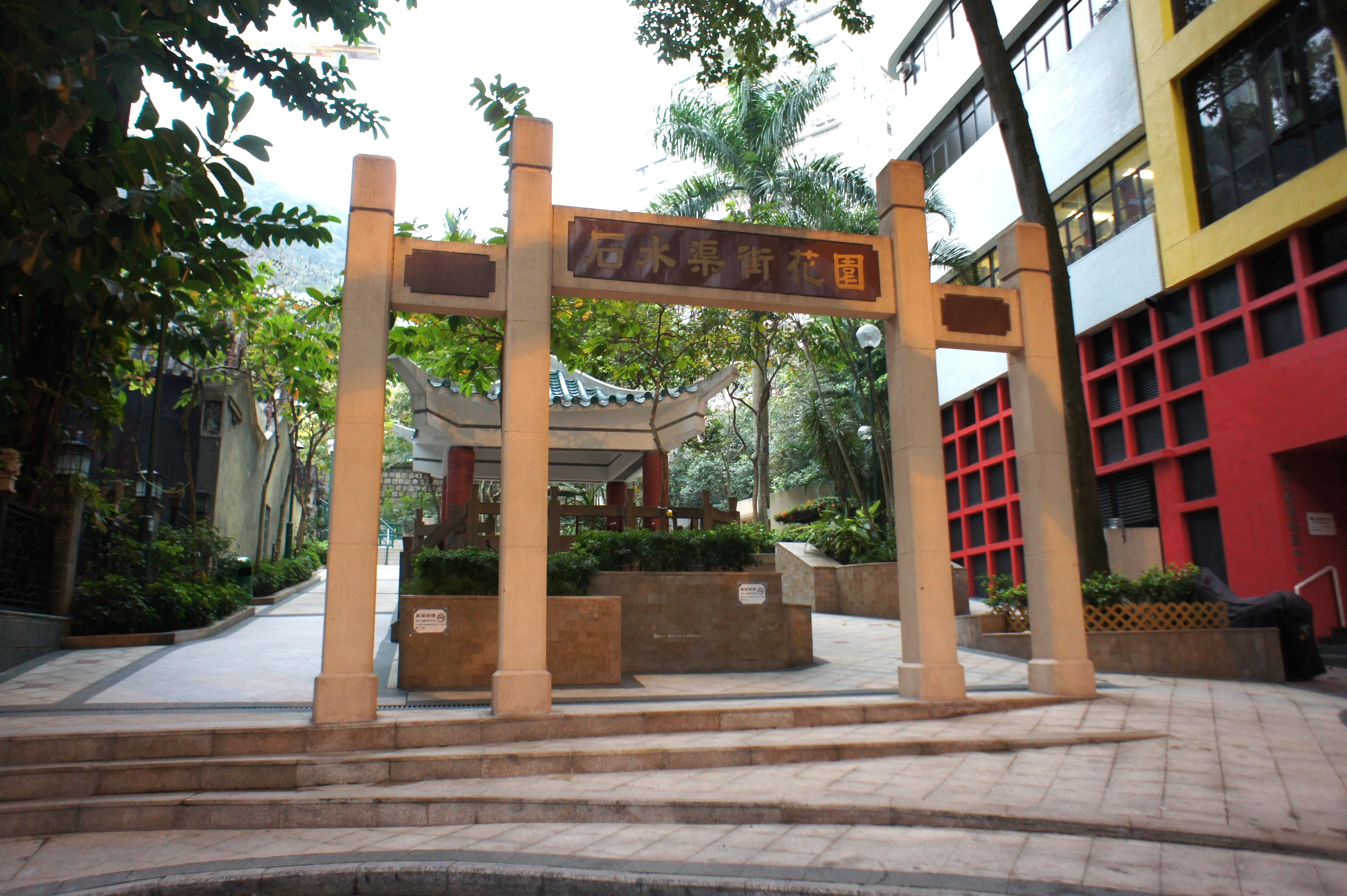 Stone Nullah Lane Garden, Wan Chai, Hong Kong. Pak Tai Temple is on the left and St. James' Settlement Community Centre is on the right.